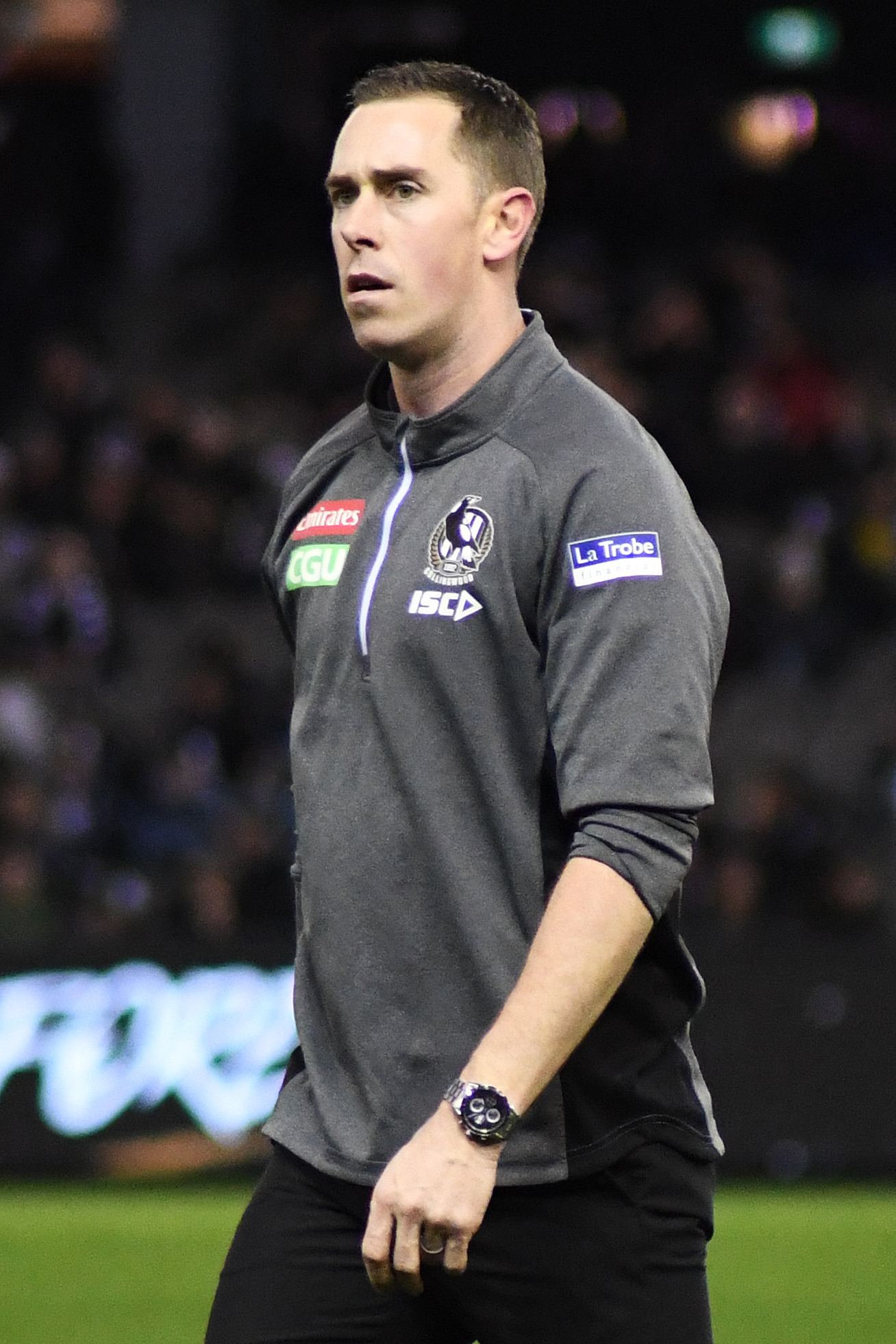 Nick Maxwell of Collingwood during the 2018 AFL round 21 match between Collingwood and Brisbane at Etihad Stadium on Saturday, 11 August 2018 in Melbourne, Victoria.